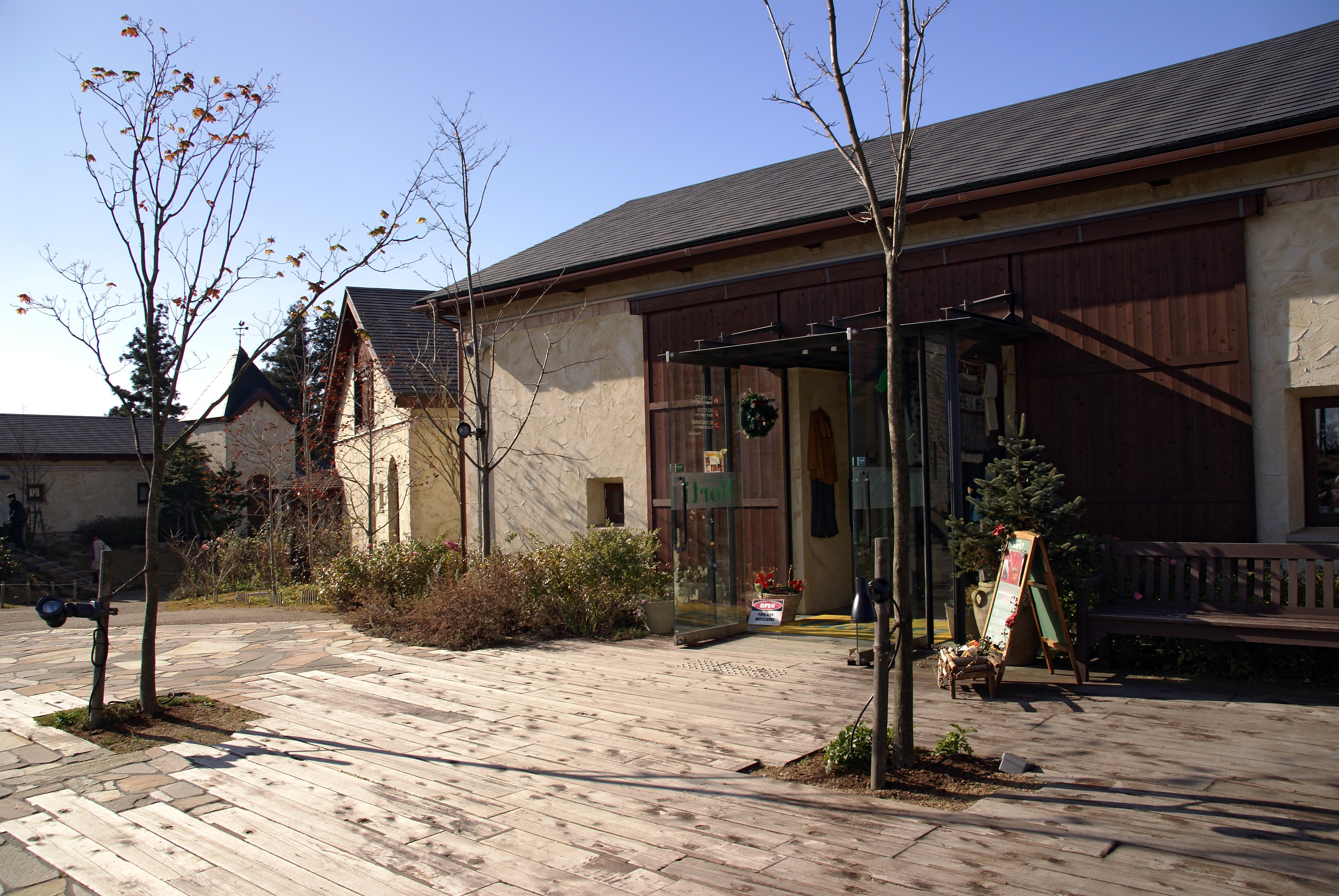 Rokko Garden Terrace in Kobe, Hyogo prefecture, Japan